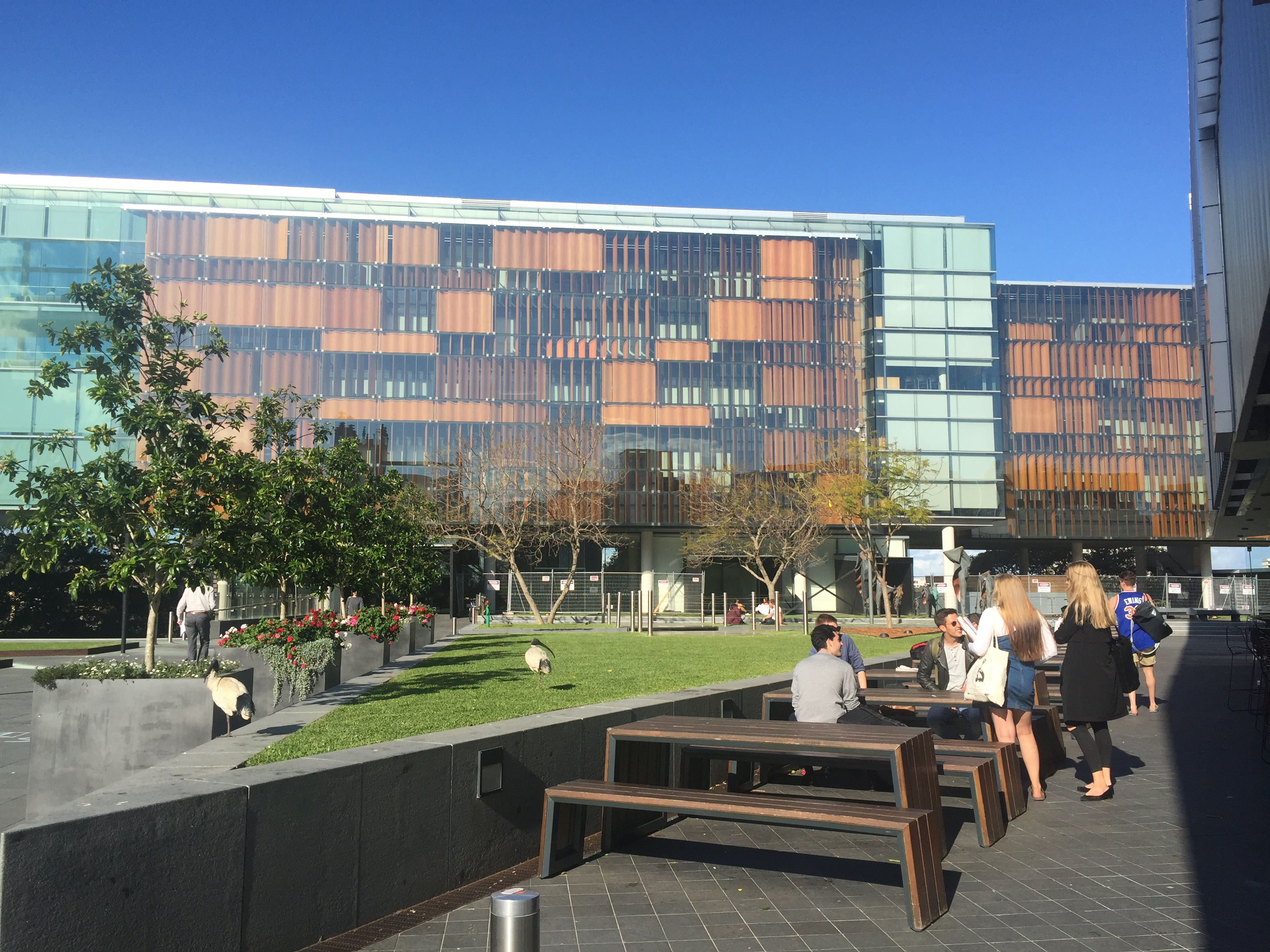 View of the New Law School of the University of Sydney